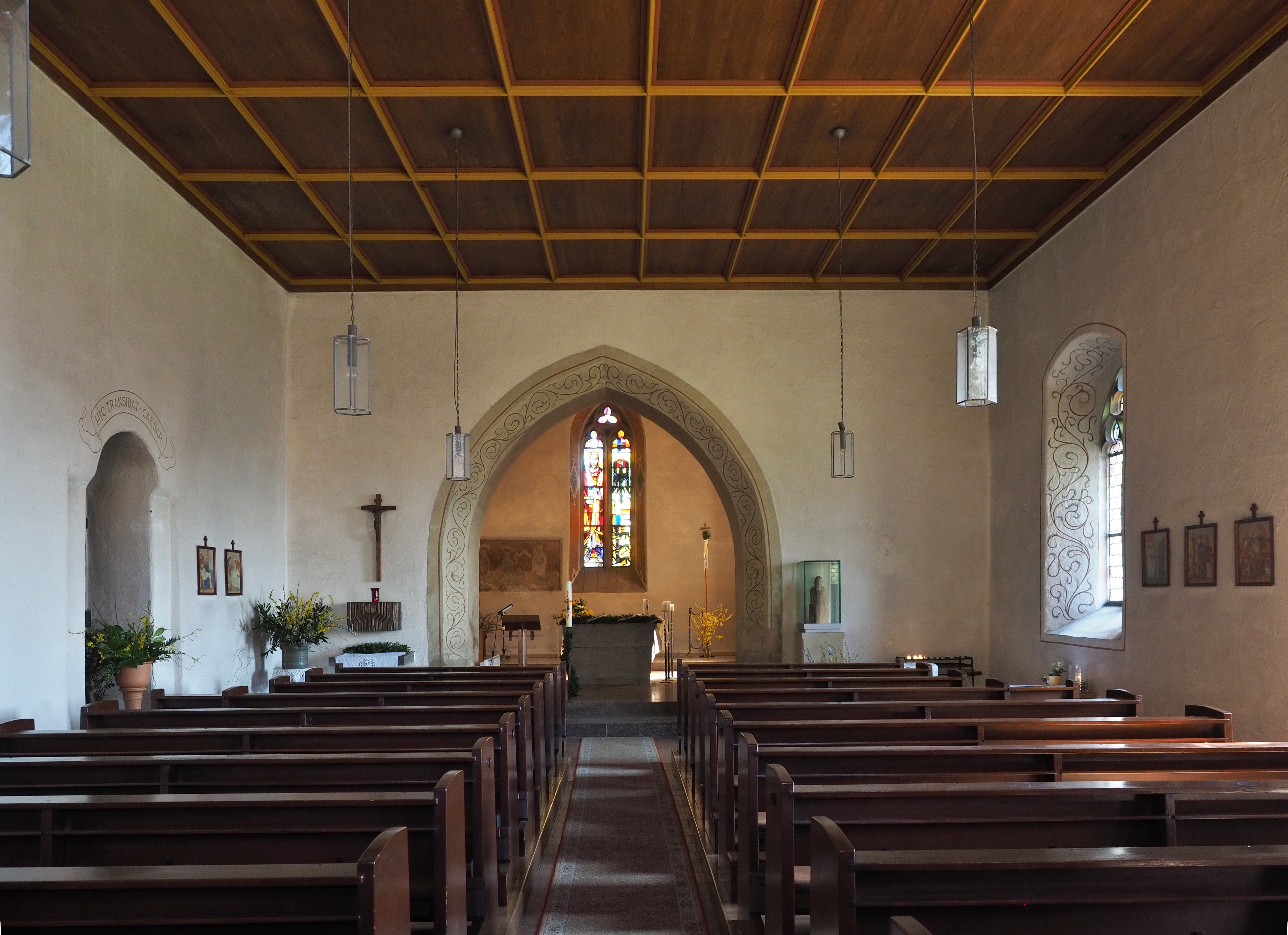 Interior of Barbarossakirche, Hohenstaufen, Germany